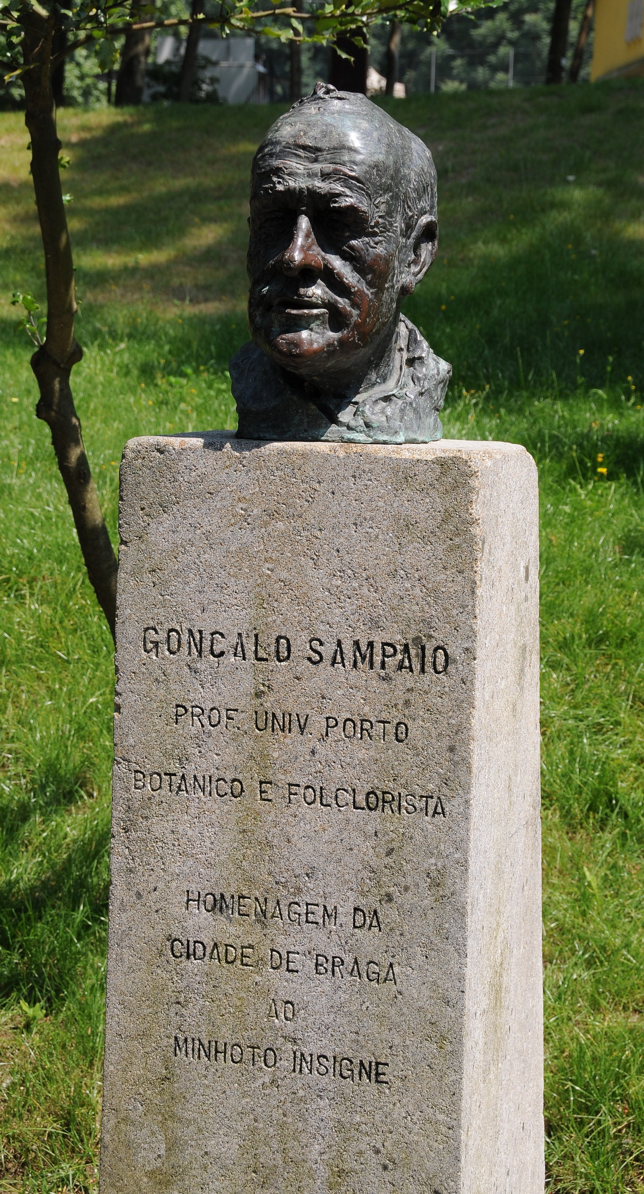 Bust of the Gonçalo Sampaio, in Parque da Ponte, Braga, Portugal.